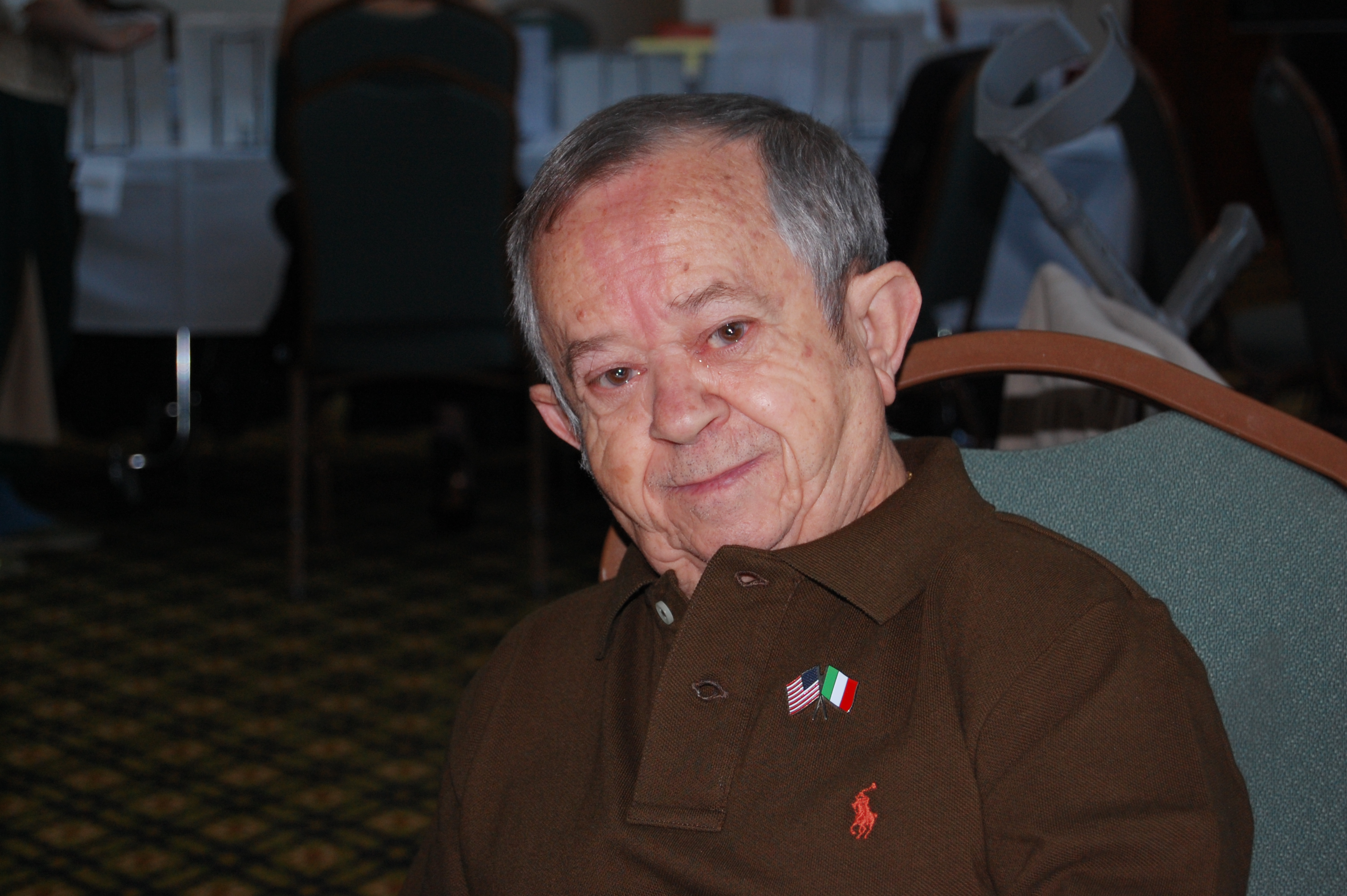 Felix Silla at Mountain-Con III in Layton, Utah.